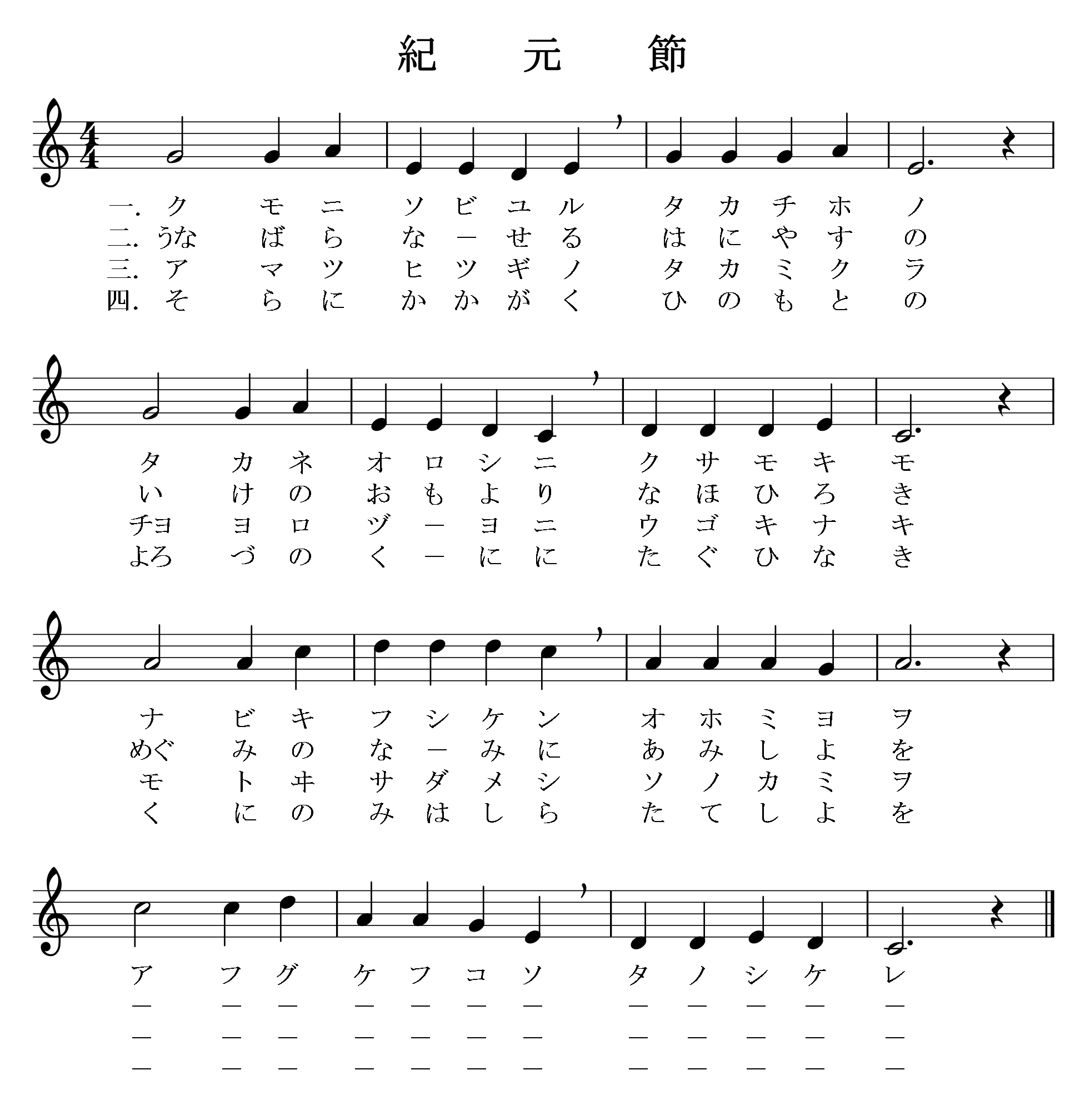 Sheet music of the Japanese ceremonial song "Kigensetsu".